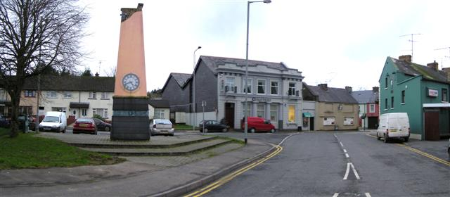 Dromore, County Tyrone. The town is bypassed but if you enter it from the Enniskillen side, this is what you see.